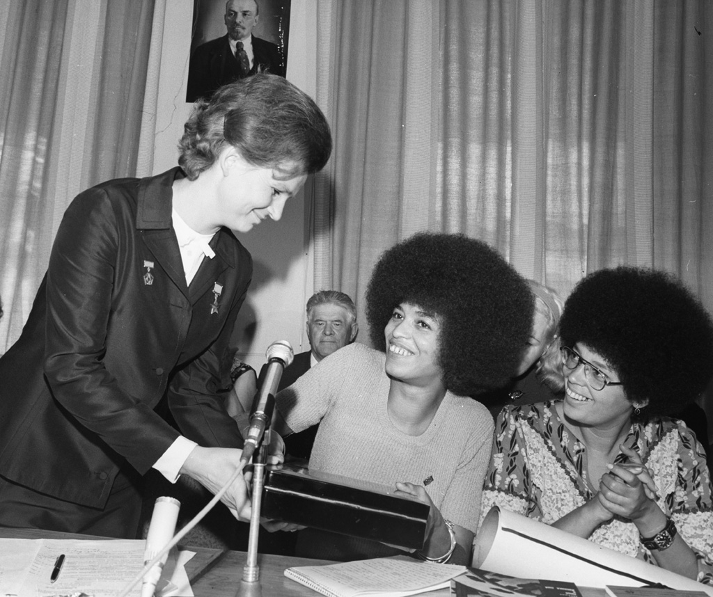 “Valentina Tereshkova and Angela Davis”. Chairwoman of the Soviet Women's Committee Valentina Tereshkova handing a memento to member of the Central Committee of the Communist Party of the United States Angela Davis, and Kendra Alexander (right).